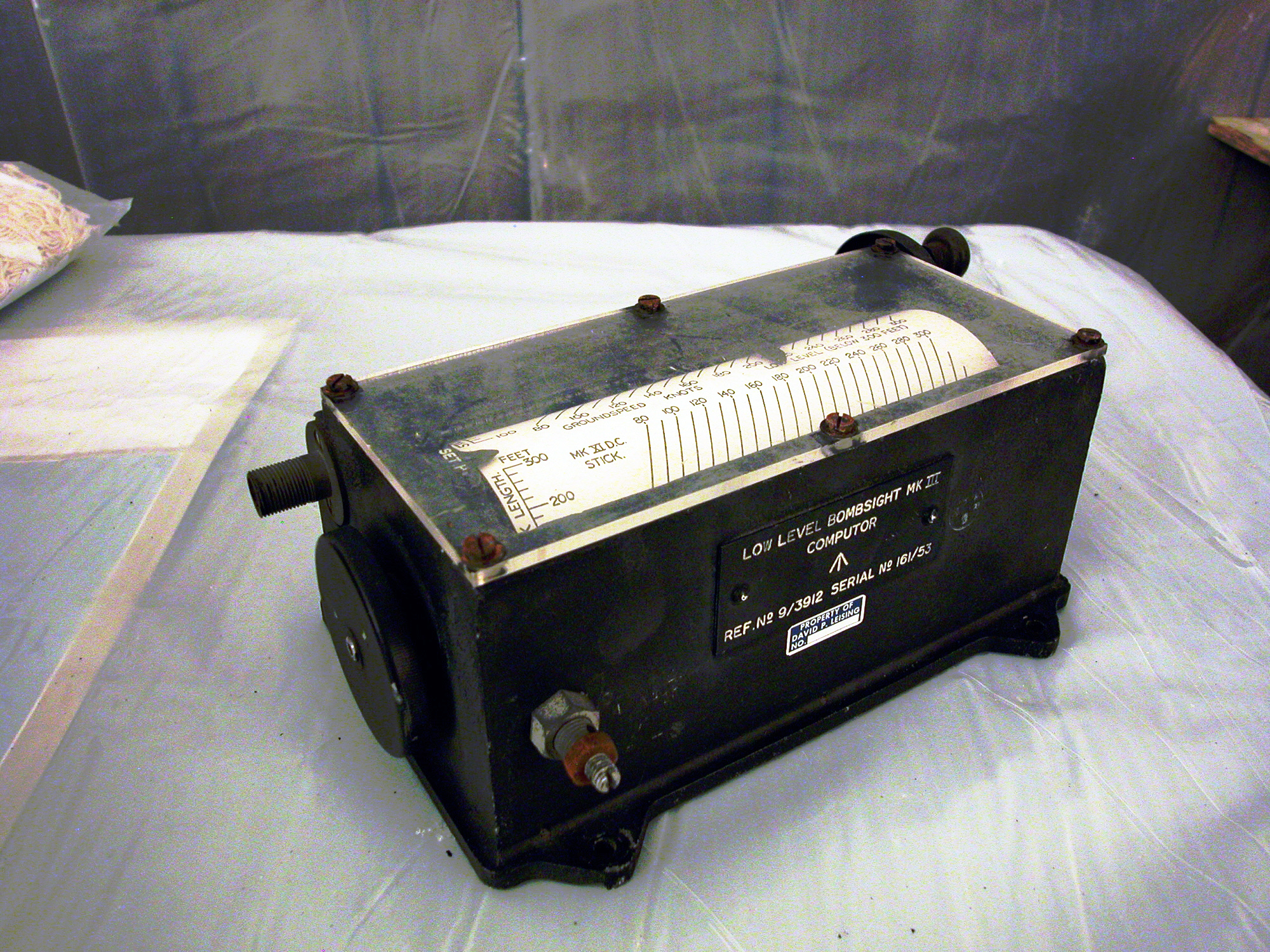 The Low Level Bombsight Mk. III consisted of two parts, the sight head, and the computor, shown here. The computer consists primarily of two parts, the large white cylinder visible through the perspex (plexiglass) window on top, and the moving pointer just visible to the left of the middle pair of (rusty) screws. The bomb aimer rotated the cylinder to select the type of bomb they were using and the aircraft's altitude, read against the pointer at the left end of the window. The aircraft's airspeed was dialed in using the knob on the upper right corner, moving the pointer back and forth across the face of the cylinder. The intersection of the (virtual) lines extending from the two pointers can be read against the lines on the cylinder to read the range, the distance the bombs will travel forward while they fall. A simple mechanical calculator inside the device converts this to the angular velocity of an object at that distance from the aircraft, which was used to drive the sight head's display. The output was an electrical current which was connected to the sight head through a cable screwed onto the fitting in the upper left.